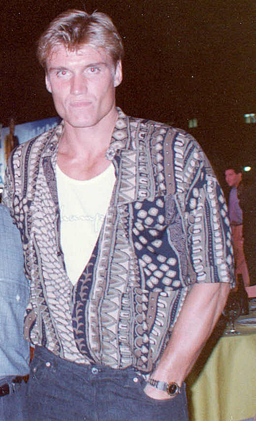 Dolph Lundgren taken at the AIR AMERICA movie premiere 1990